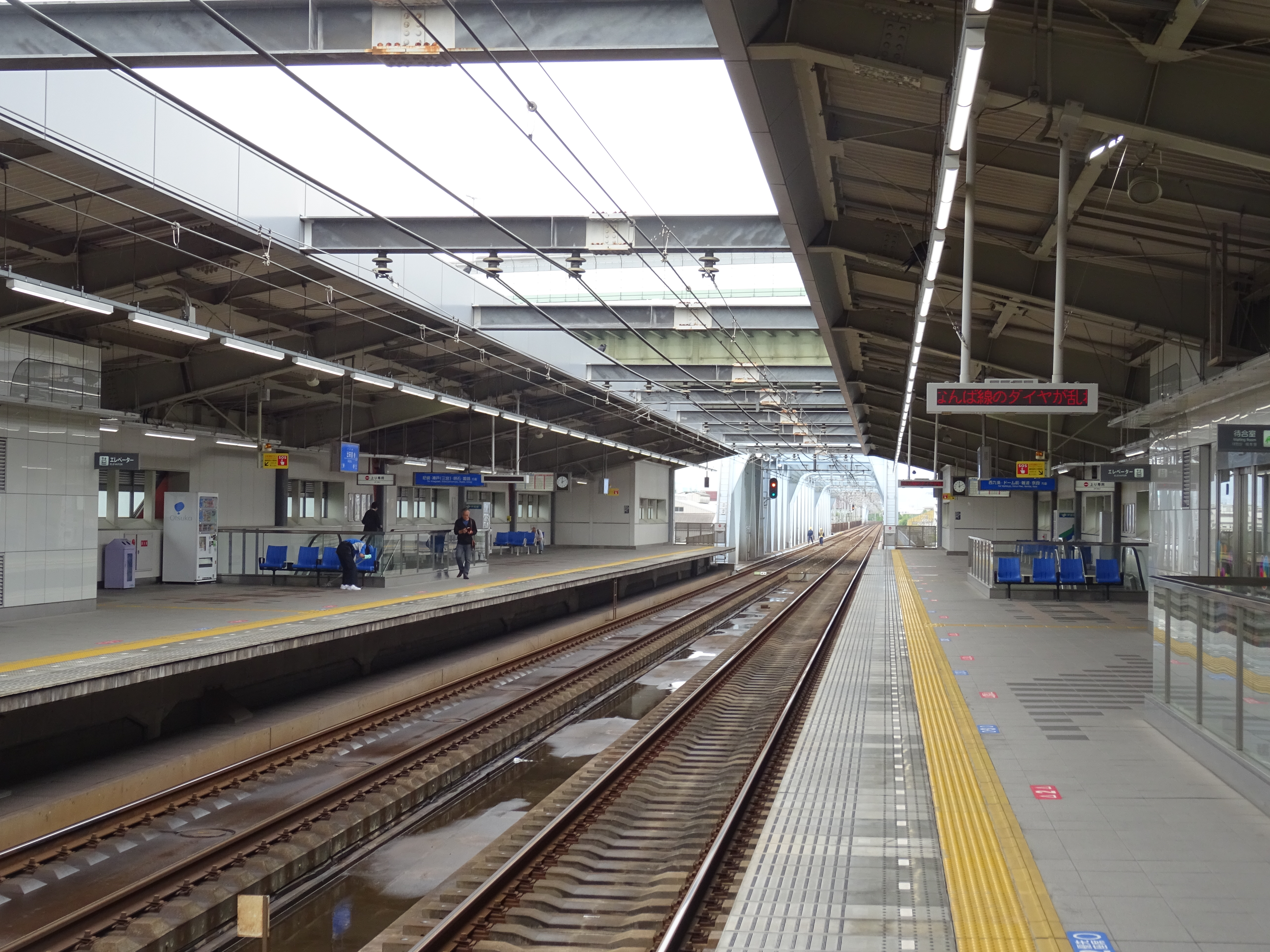 Hanshin Line - Dekijima station - rail tracks and platforms towards the northh